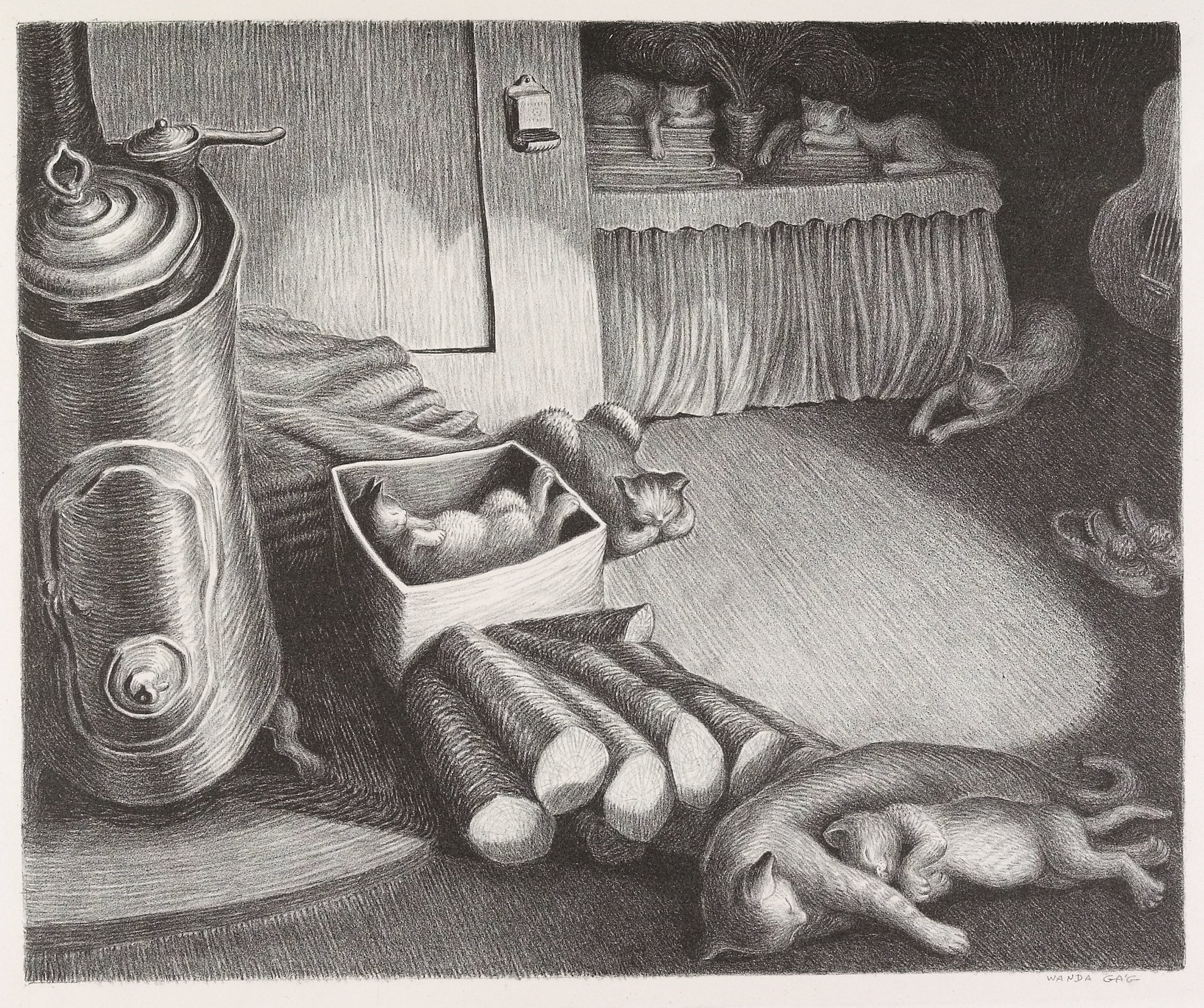 Seven cats taking a nap near a woodstove.